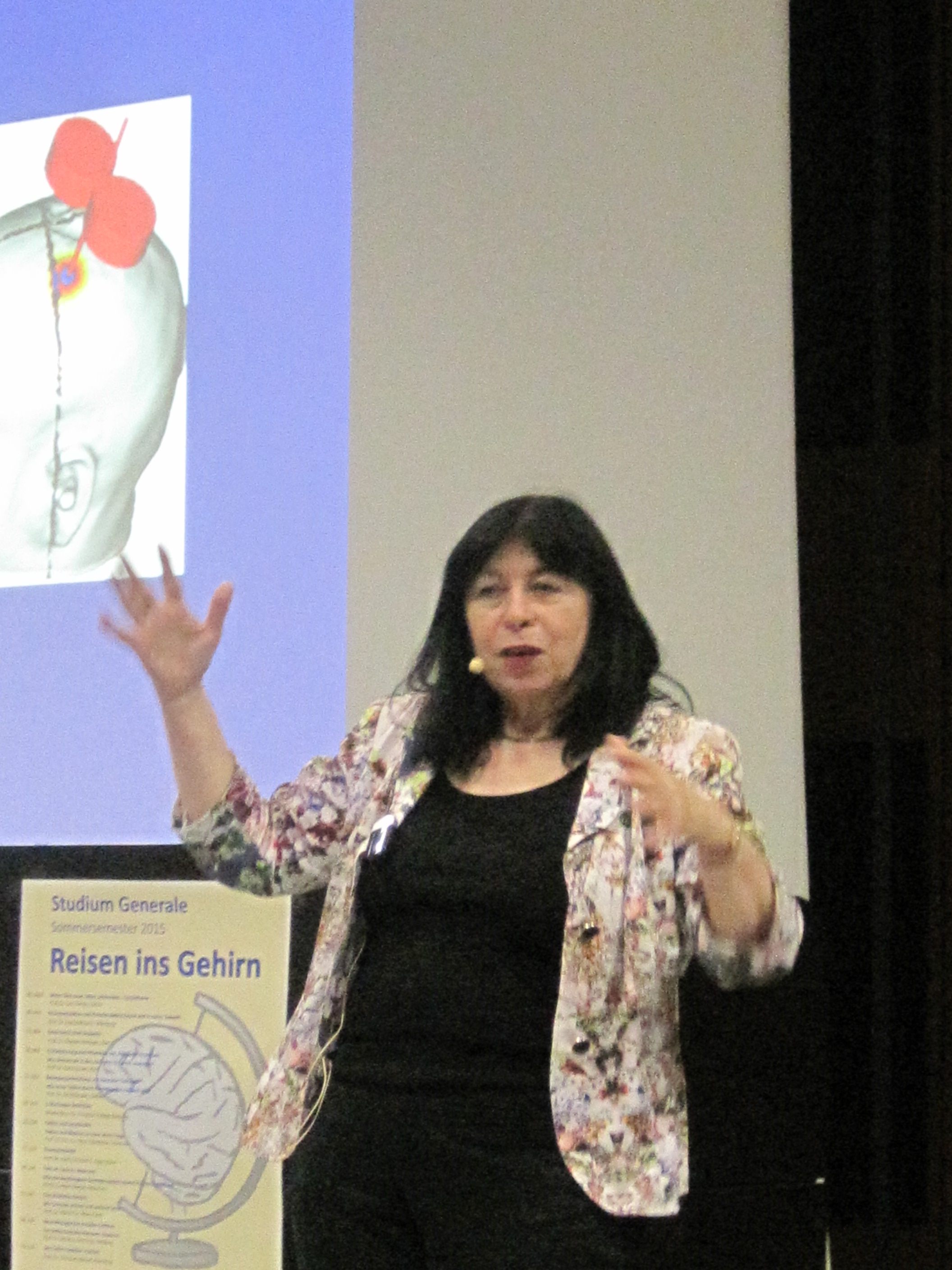 german neuroscientist Herta Flor